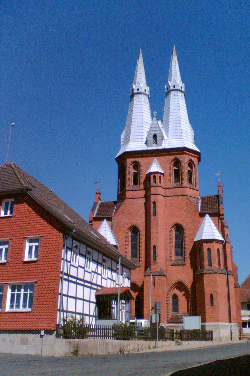 town hall and church